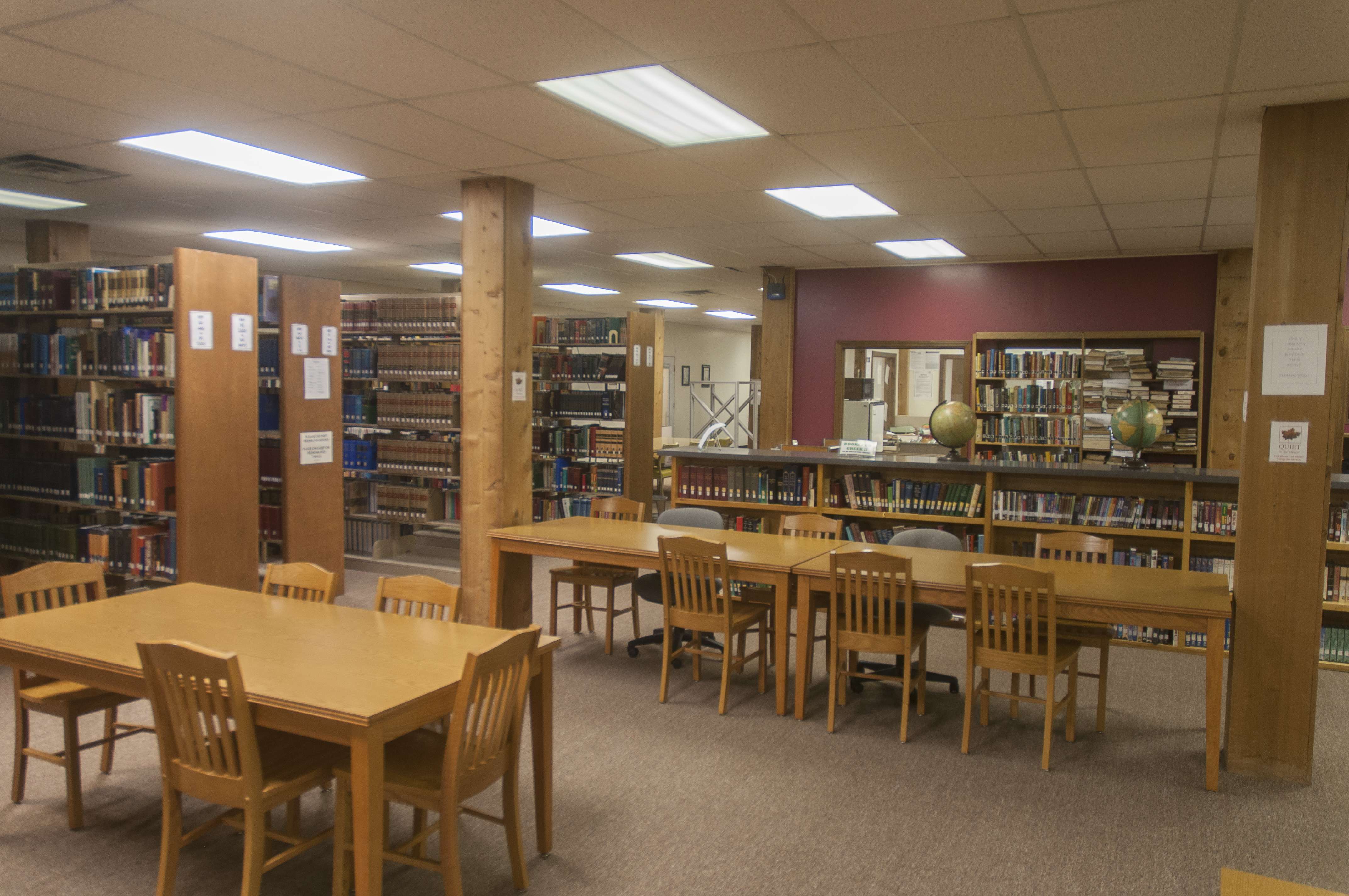 Hilda Kroeker Library on Calvary Bible College Campus